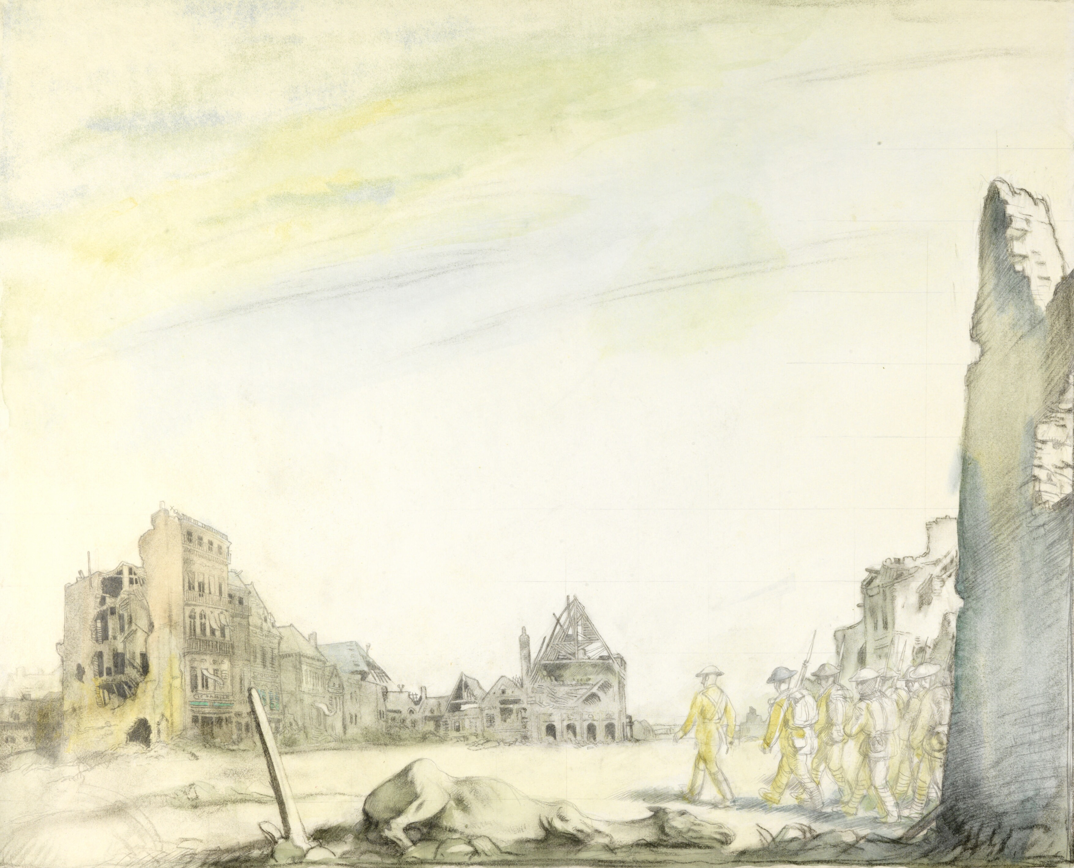 The Warwickshires Entering Peronne, March 1917 image: the head of a column of British infantry appear from behind a wall in the right foreground marching into the bomb damaged town square at Peronne. All around the square stand the remains of bombed houses, with a dead horse lying in the immediate foreground.